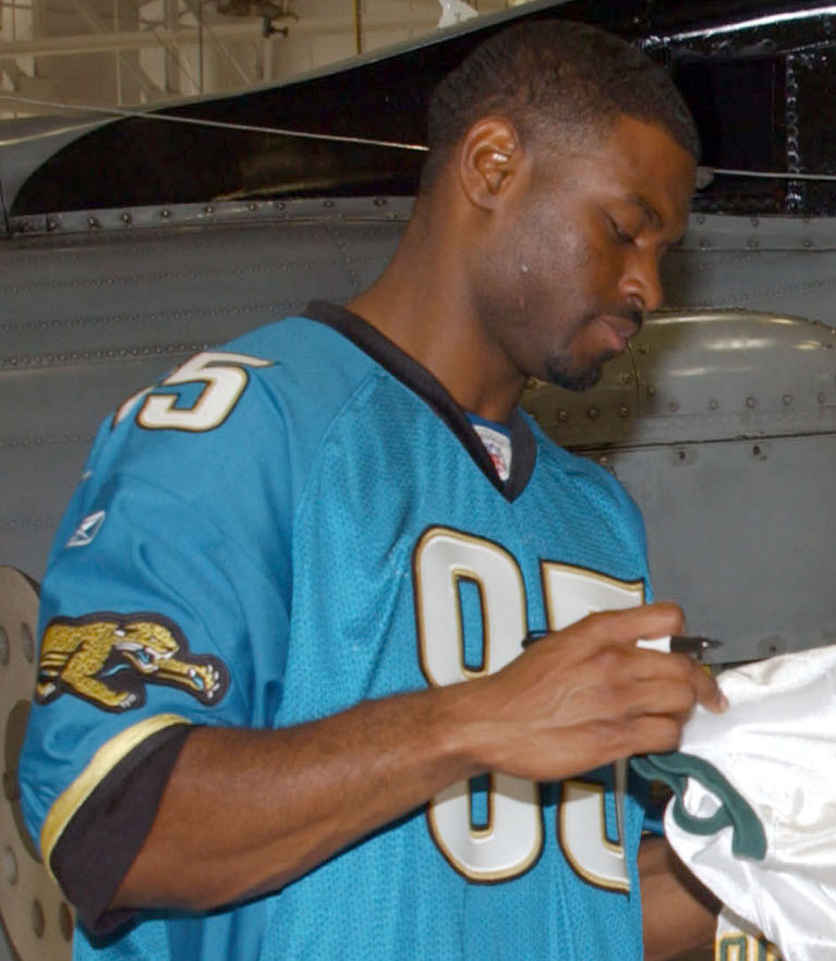 Mayport, Fla. (Nov. 29, 2005) - Jacksonville Jaguars Wide Receiver Cortez Hankton and Safety Gerald Sensabaugh autograph memorabilia for Sailors and their family members in the hangar of Helicopter Anti-Submarine Squadron Light Four Four (HSL-44). The players visited Commander, Helicopter Anti-Submarine Light Wing, U.S. Atlantic Fleet (COMHSLWINGLANT) personnel that participated in Joint Task Force Hurricane Katrina relief efforts. U.S. Navy photo by Photographer's Mate 2nd Class Lynn Friant (RELEASED)